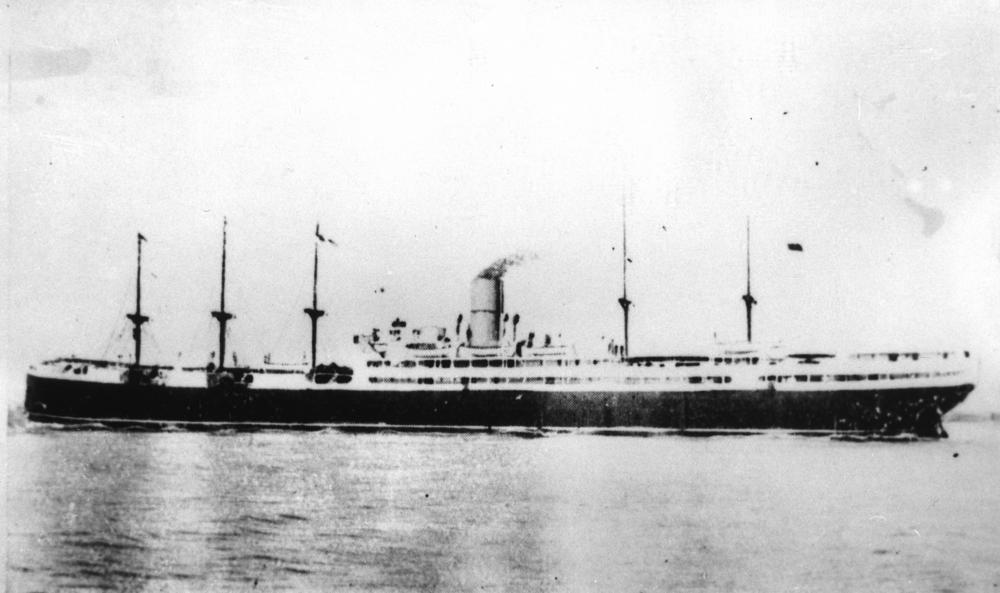 Passenger steamship Rotorua, formerly Shropshire